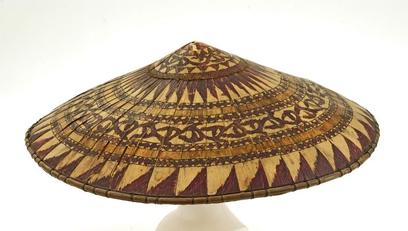 Woven hat